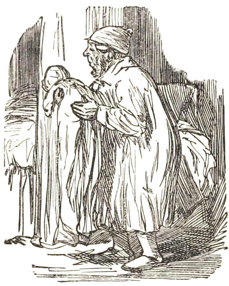 Little number six began to cry; /122. Mrs Caudle's curtain lectures, book by Douglas William Jerrold, a comic series originally published in Punch magazine